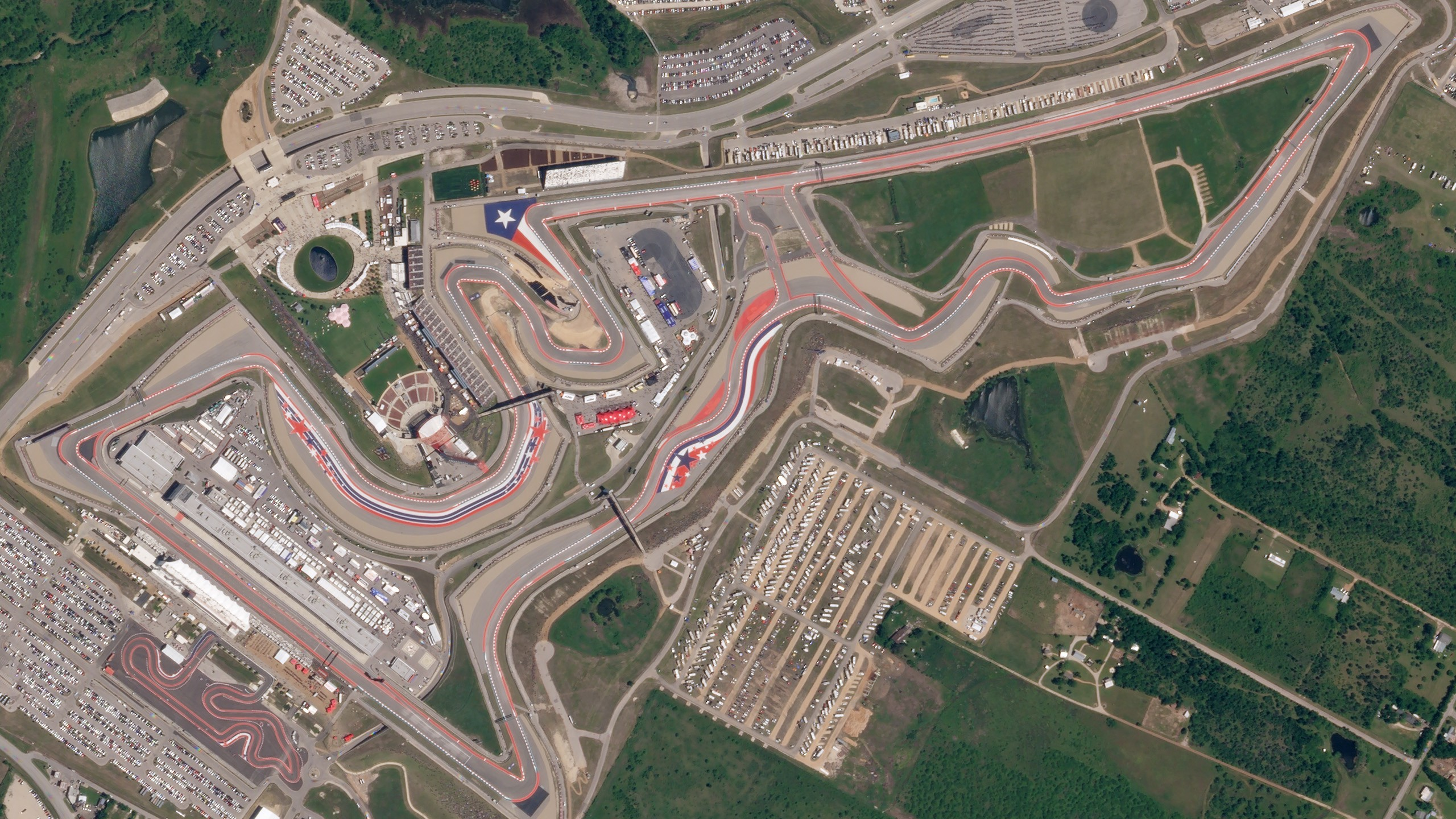 Circuit of the Americas, a grade 1 FIA-specification 3.427-mile (5.515 km) motor racing track located within the ETJ of Austin and home to the Formula One United States Grand Prix and the IndyCar Classic. Image taken on April 22, 2018, during the Motorcycle Grand Prix of the Americas, by a Planet Labs SkySat satellite.